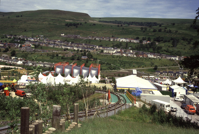 National Garden Festival, Ebbw Vale Approximate location by the side of the festival funicular railway. There is new development over much of this north end of the site.